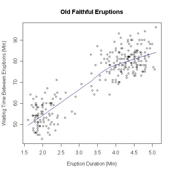 Waiting time between eruptions and the duration of the eruption for the Old Faithful geyser in Yellowstone National Park, Wyoming, USA.